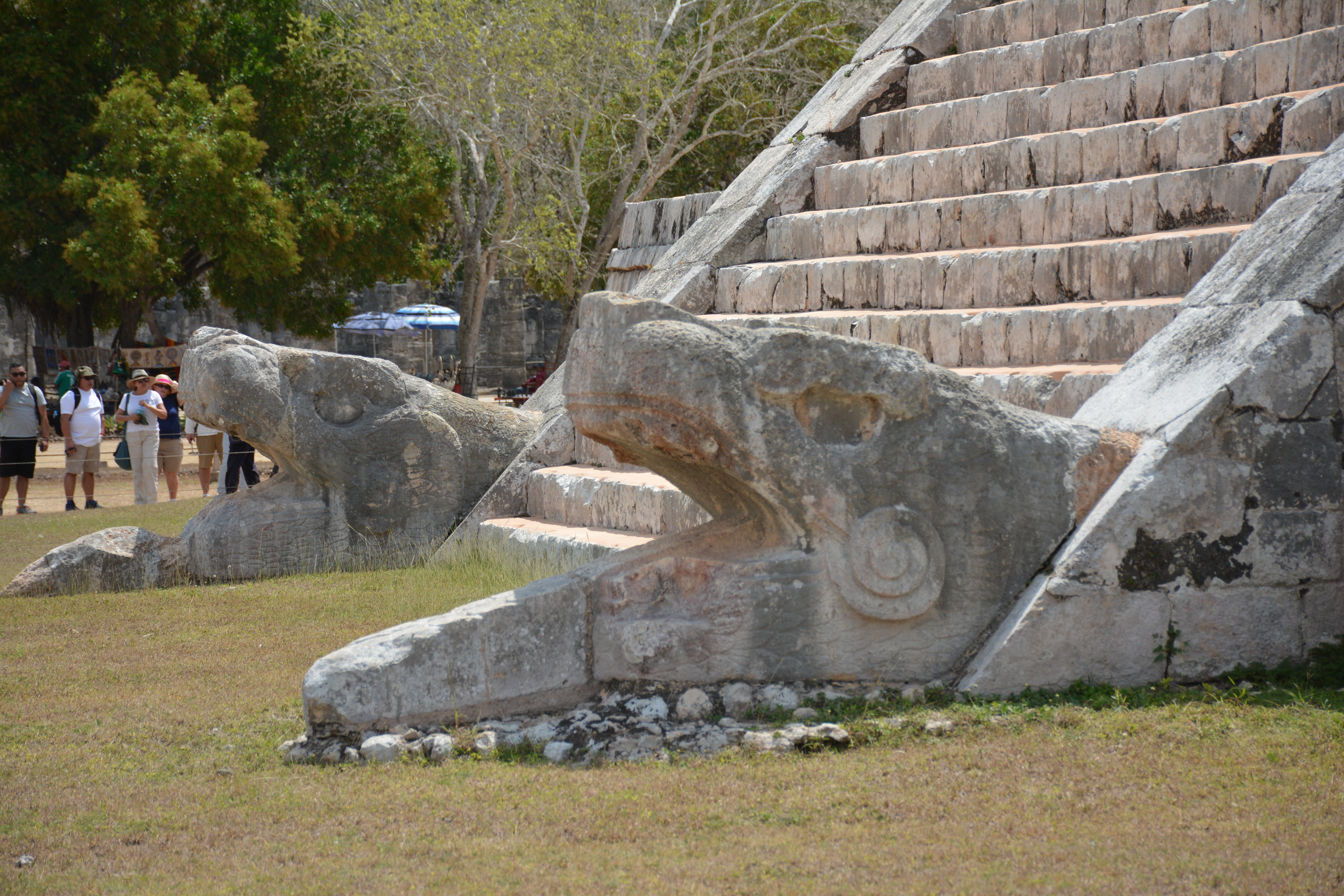 Castillo in Chichén Itzá. Mexico